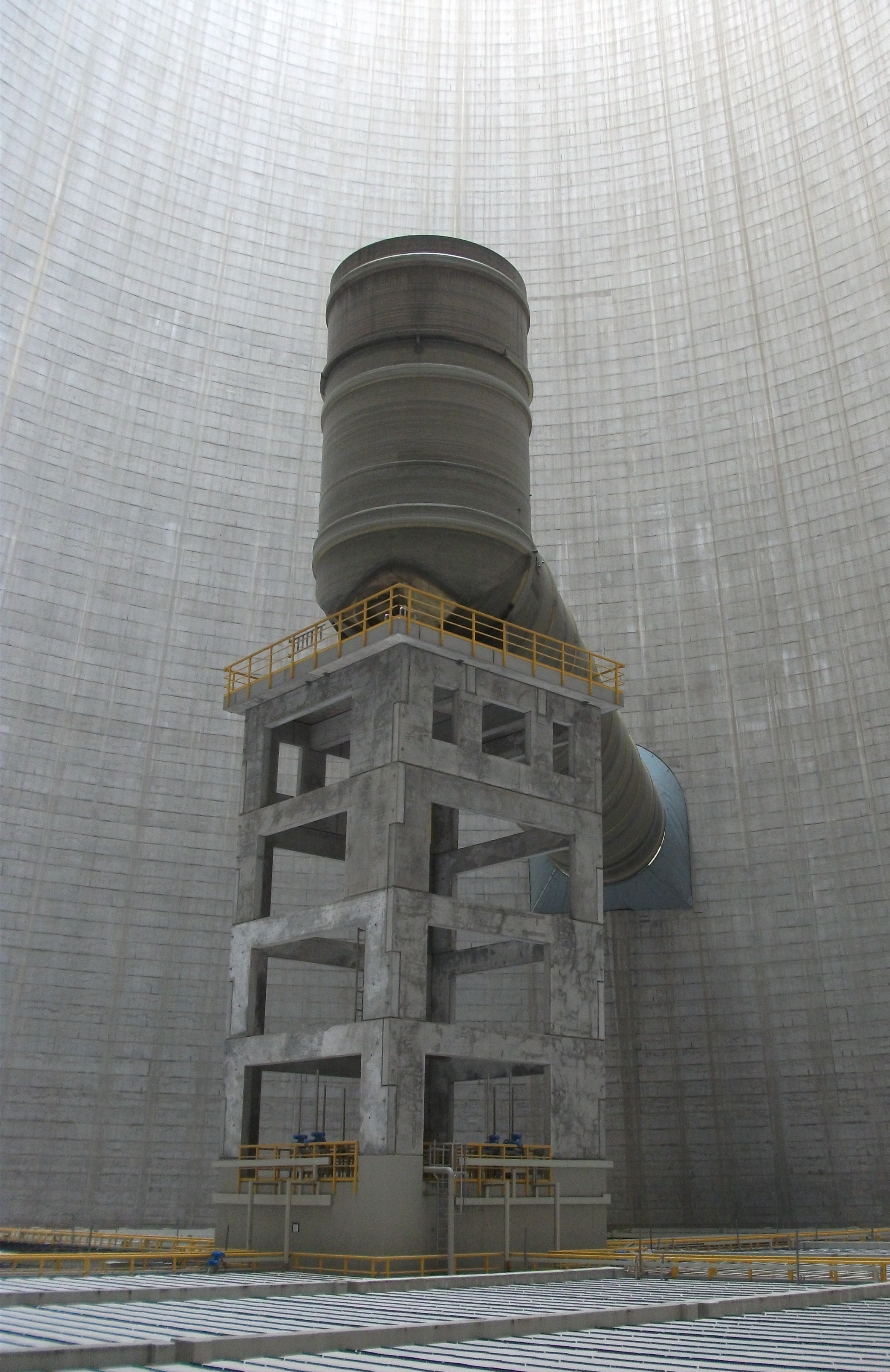 The picture shows a smoke pipe of a coal-fired power station which is used as a chimney in the middle of the cooling tower of the power plant.